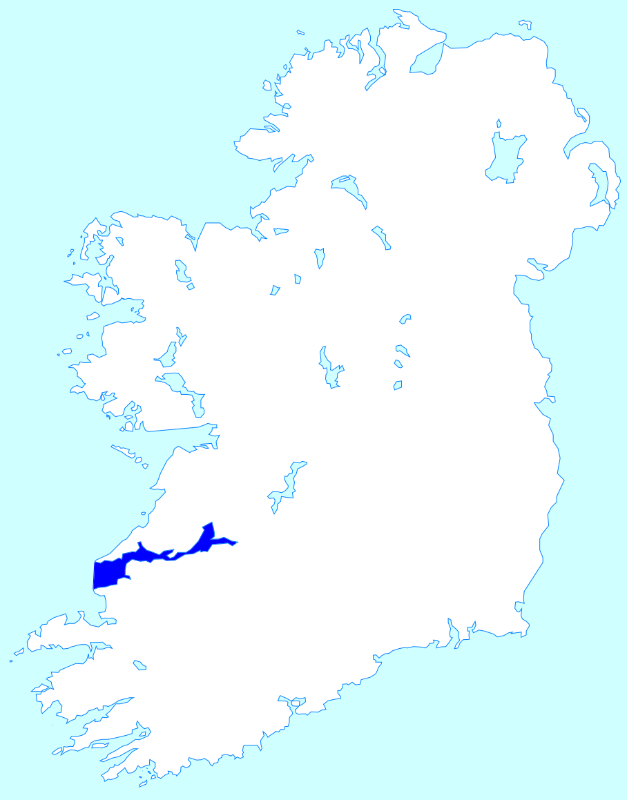 A map highlighting the location of the Shannon Estuary within Ireland.